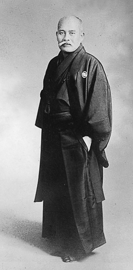 Japanese martial artist, Morihei Ueshiba (1883-1969)